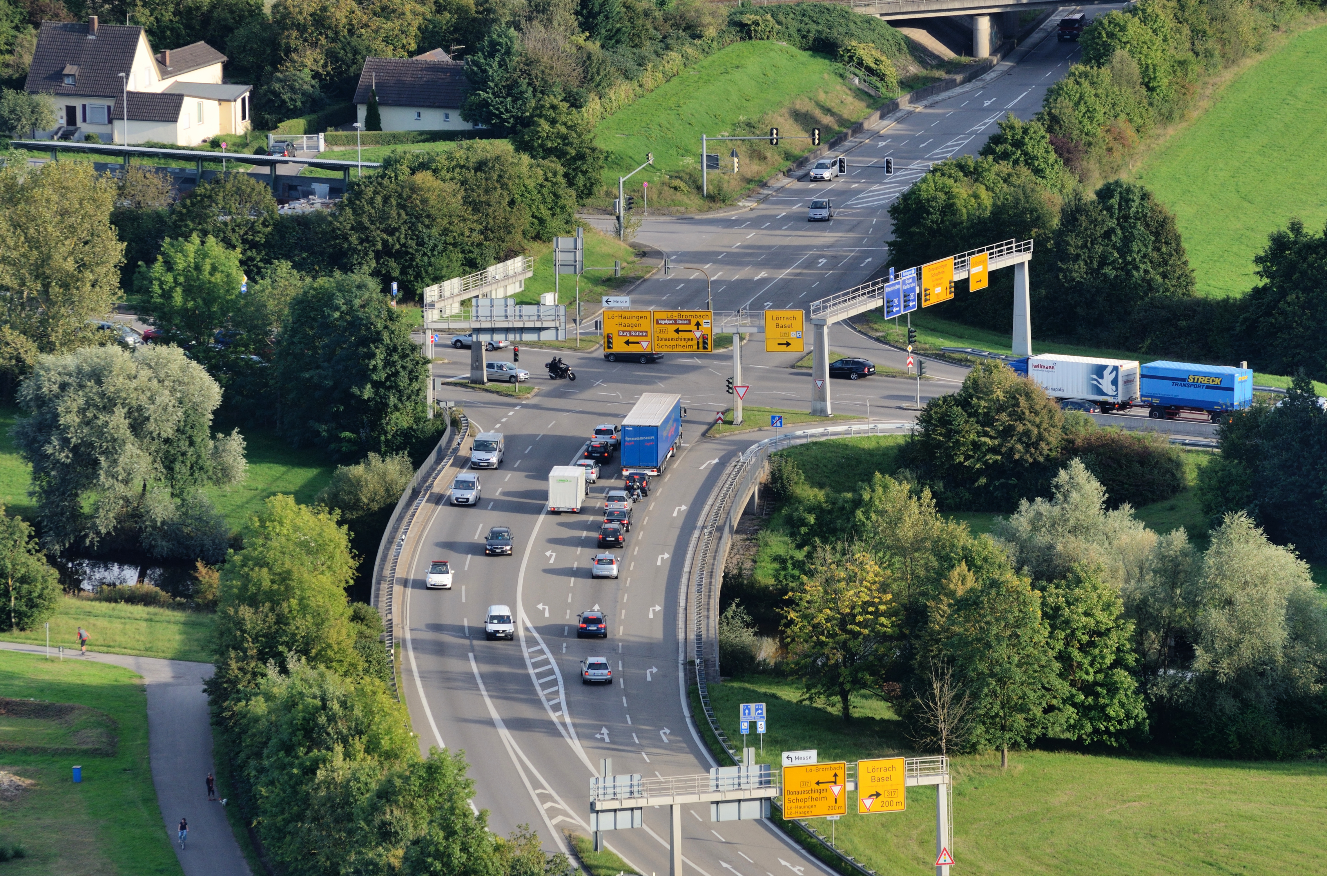 Lörrach: crossroads at federal highway (B317)